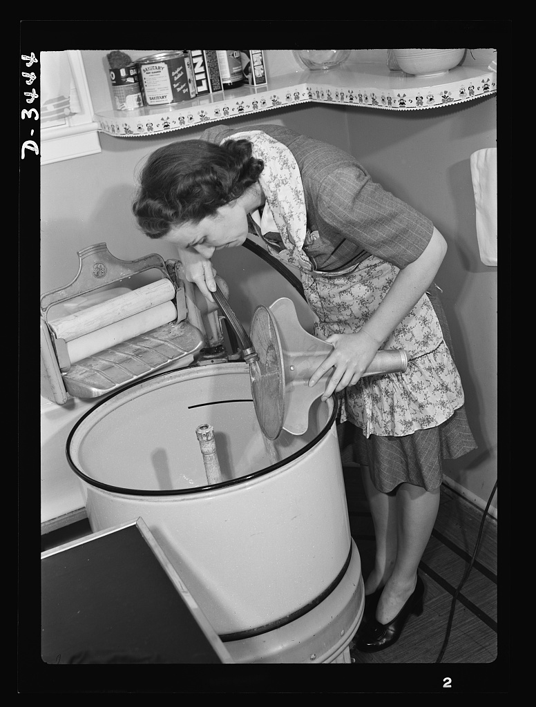 Title: That washing machine has to last for a long time, so keep it in good condition. Drain it immediately after use, rinse tub thoroughly, remove agitator or suction cups and rinse with clear water